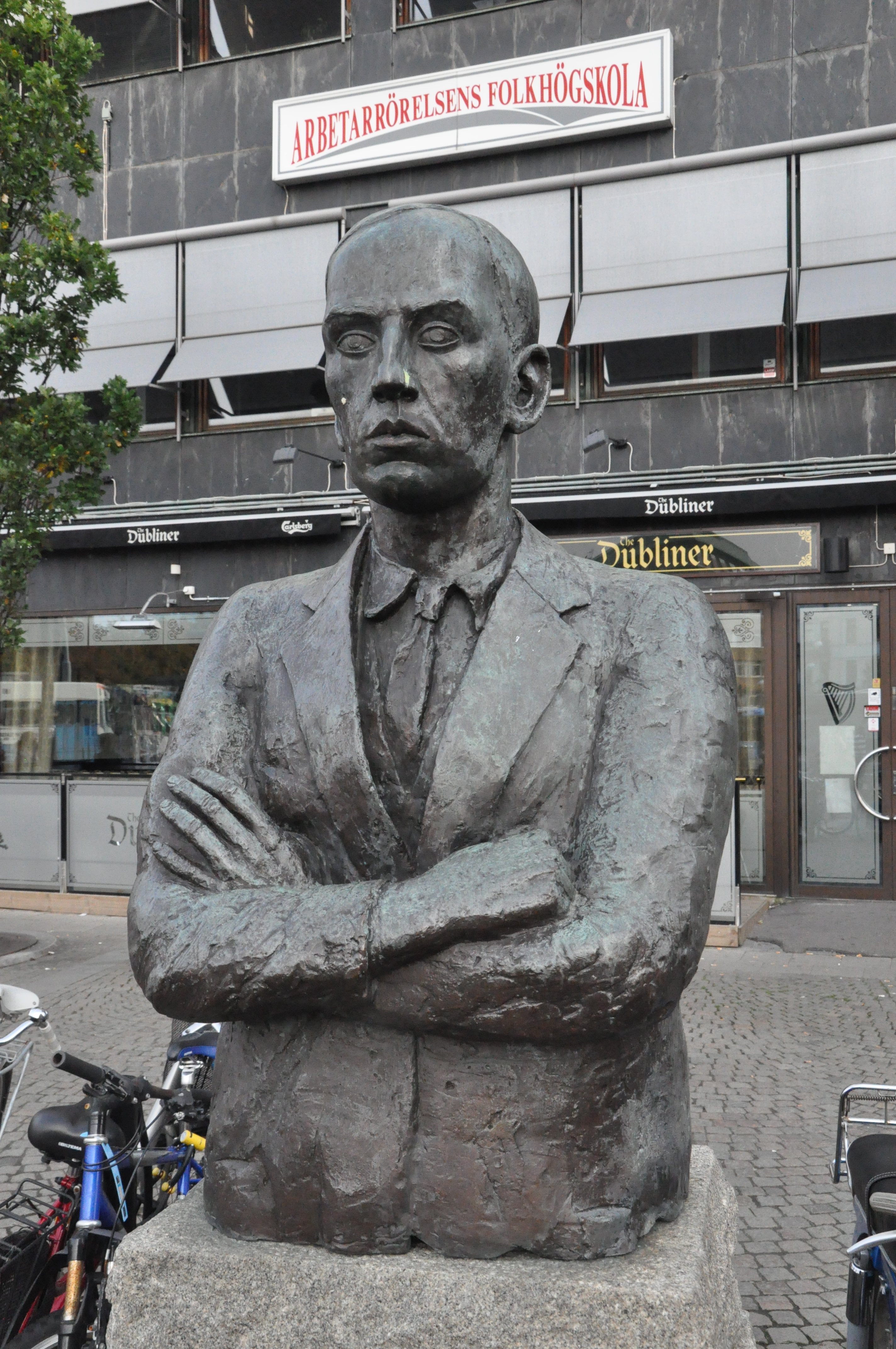 Sculpture of Dan Andersson by Britt-Marie Jern, 1990, Järntorget in Gothenburg